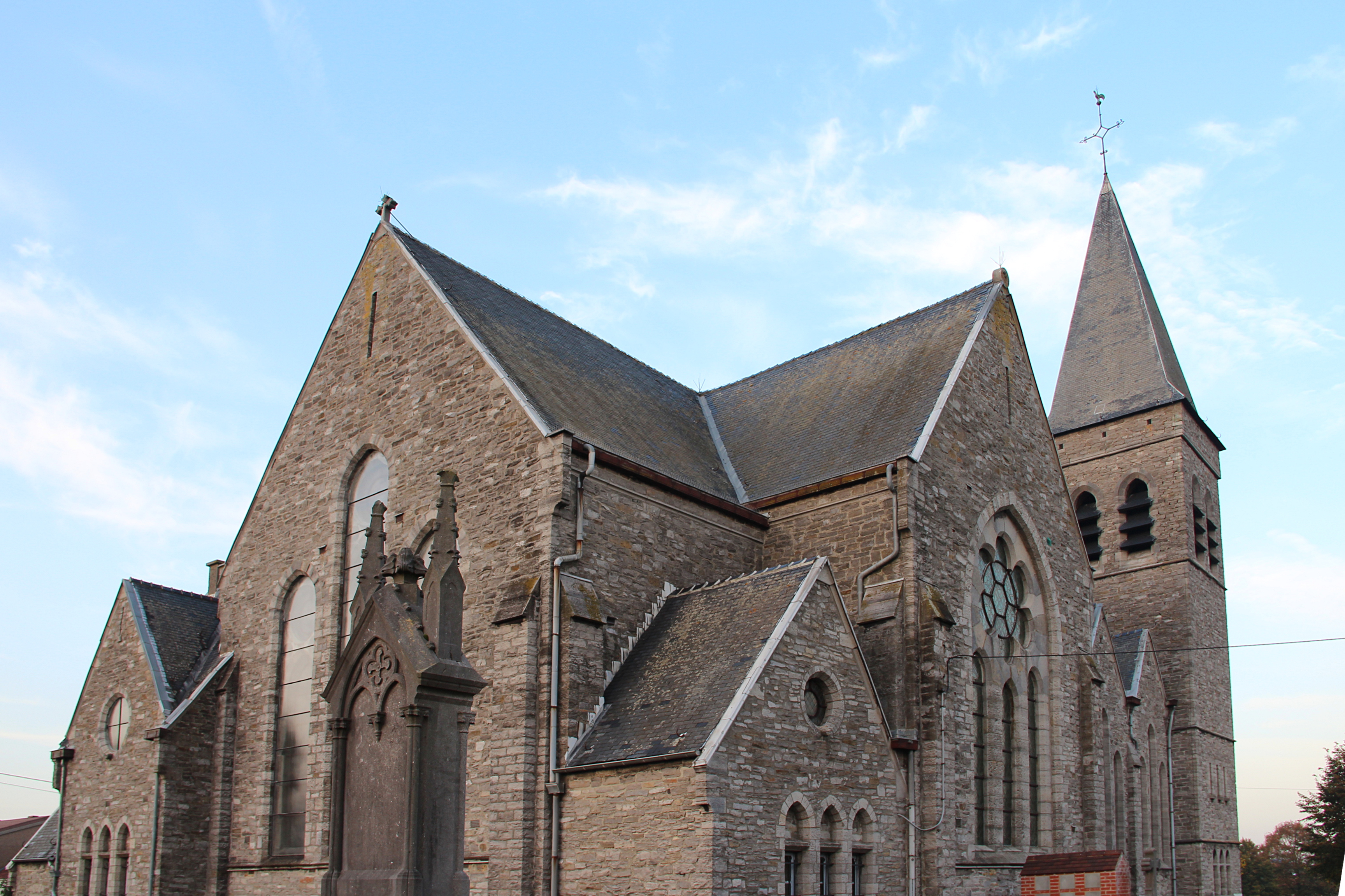 Saint-Maur (Belgium), the church of Saint Maur (1925).